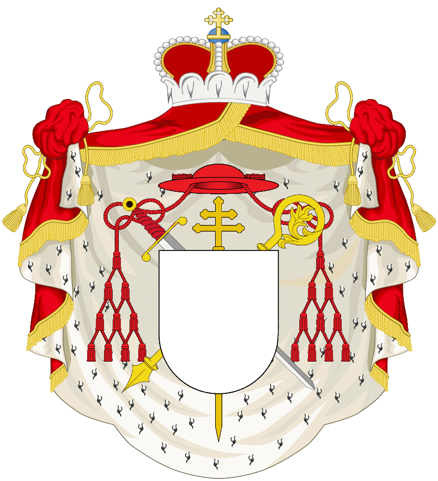 External ornaments for a Prince-Archbishop of Salzburg. (The archbishops of Salzburg traditionally have the privilege of wearing red vesture - similar to a cardinal's scarlet -, which is also reflected in their coats of arms.)